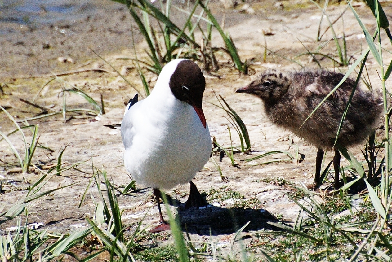 An Black-headed Gull with a chick at Minsmere, Suffolk, England.